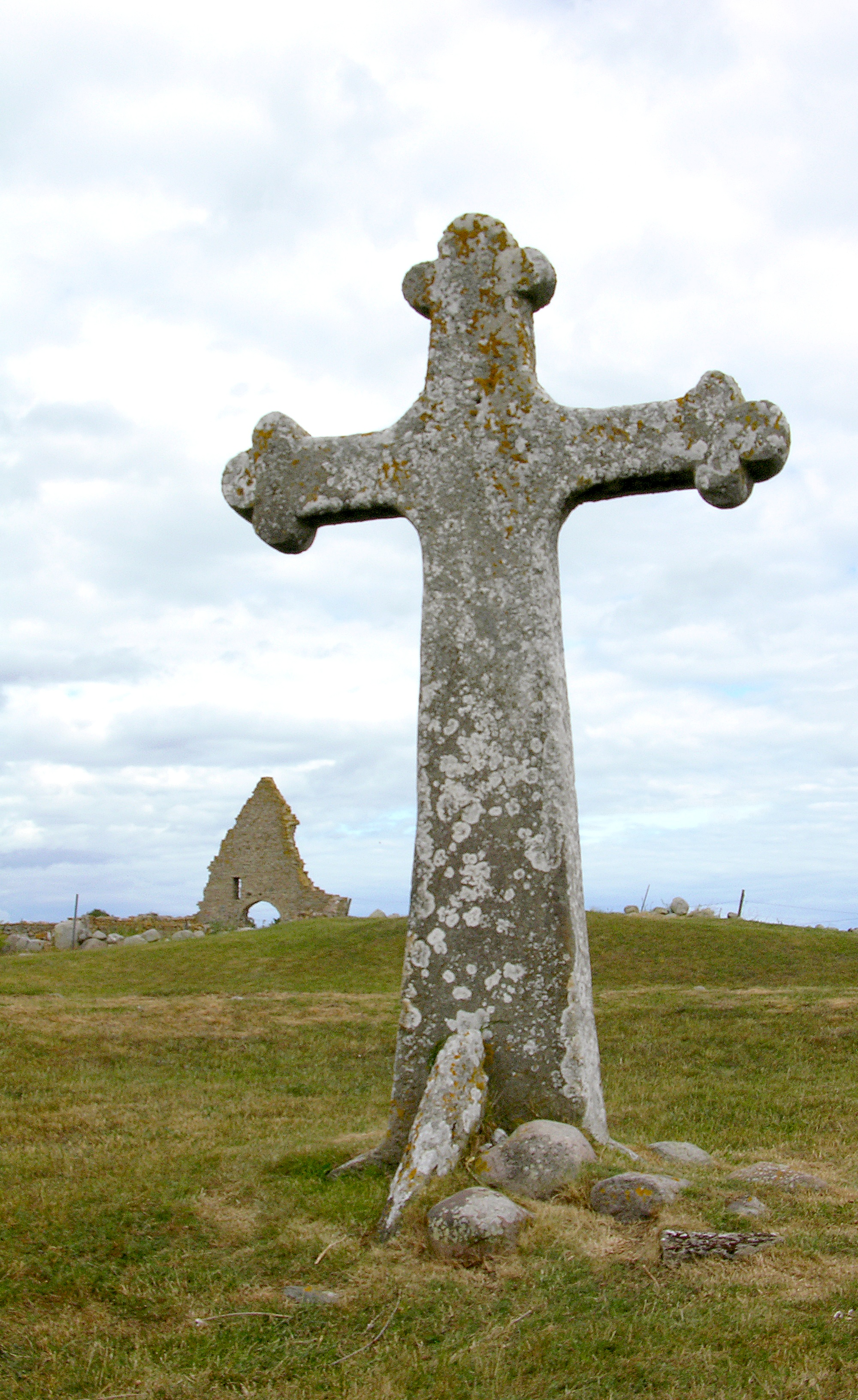 The ruins of the Chapel of Saint Birgitta (possibly Birgitta of Sweden or Brigid of Kildare) at Kapelludden on the east coast of Öland, built in the 13th century, with a stone cross from the same time. After this photo was taken, the cross broke into three pieces as it was knocked over by debris during a storm on 2007-01-14. The cross was repaired and erected again in October 2007.